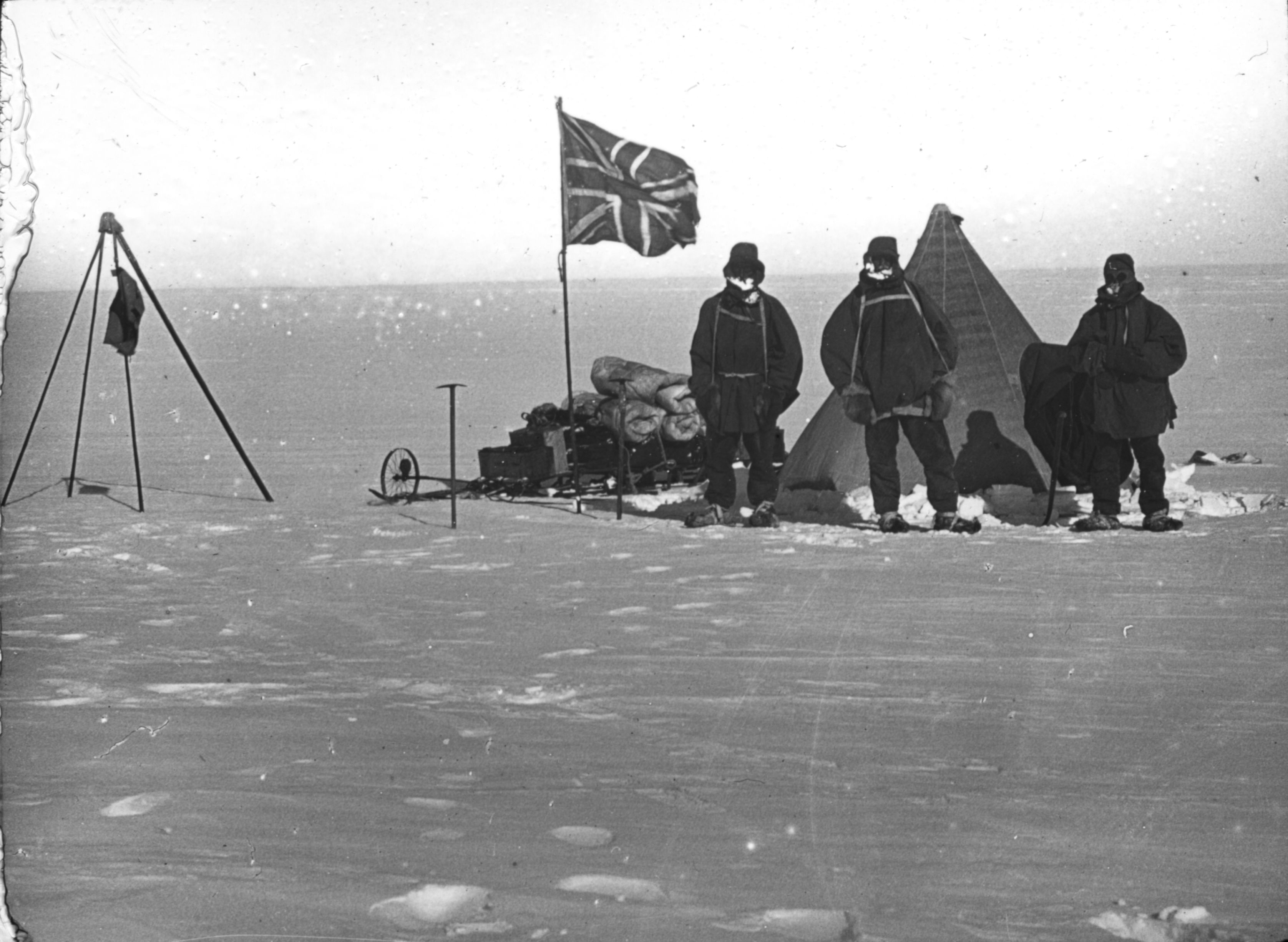 Photographs of the Nimrod Expedition (1907-09) to the Antarctic, led by Ernest Shackleton